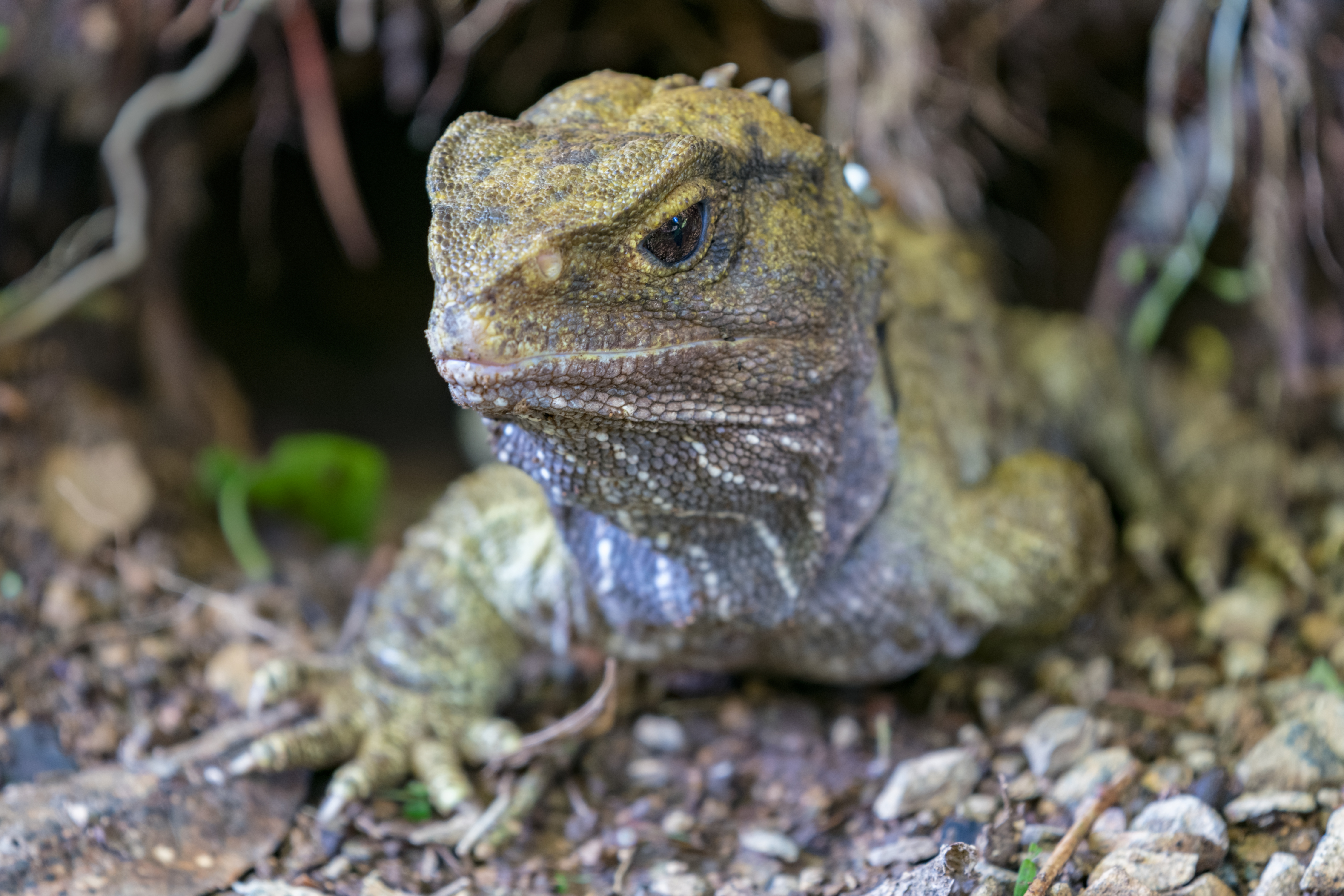 Tuatara at Zealandia EcoSanctuary. The white dot on the right hand side is a plastic identification band (partially occluded)